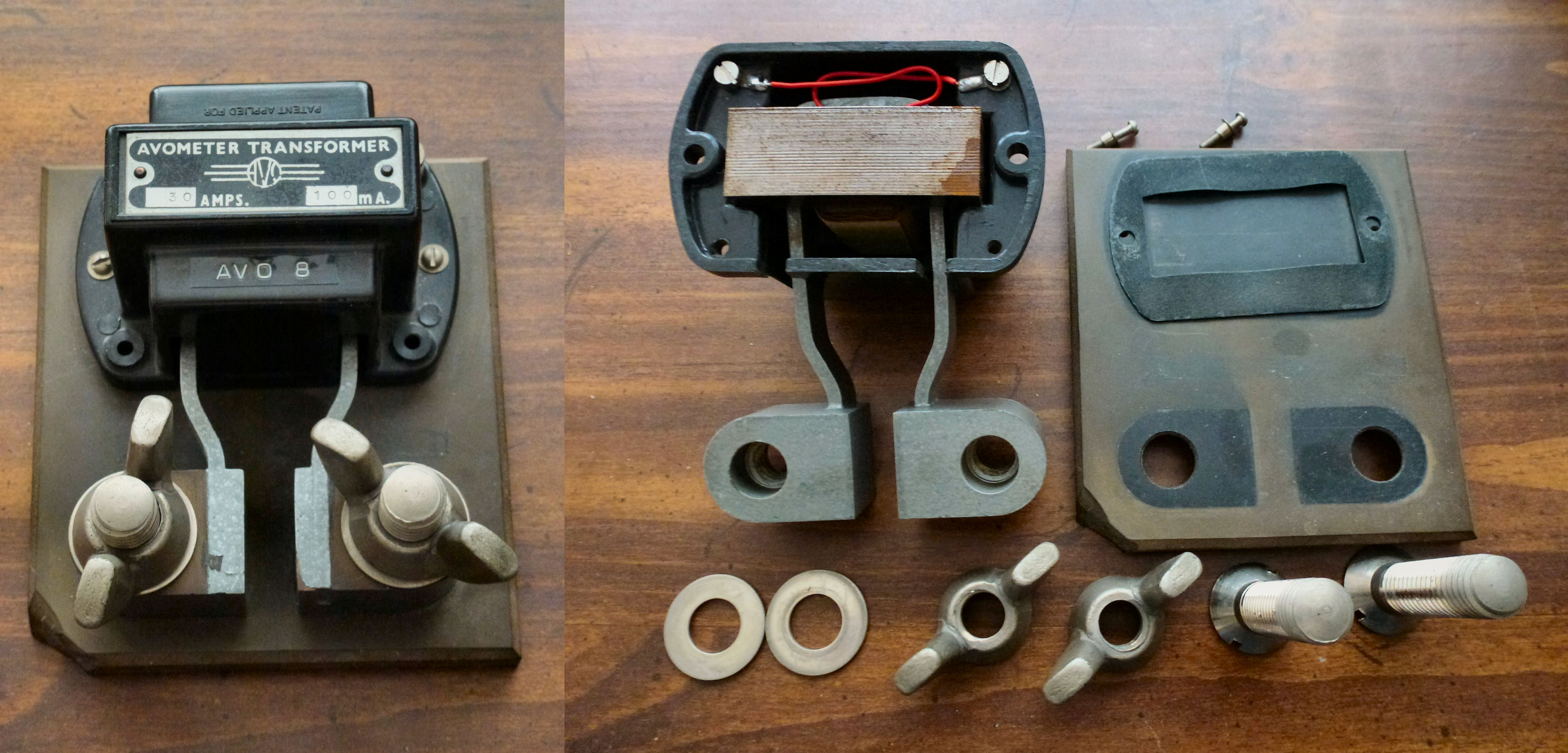 Current transformer to be used with the AVO-8 multimeter with 30A to 100mA ratio